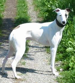 A foto of a Whippet (dog). My own dog, therefore no copyright problems ;-)